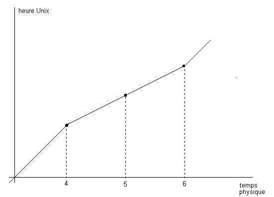 clock slowed down when a leap second is inserted